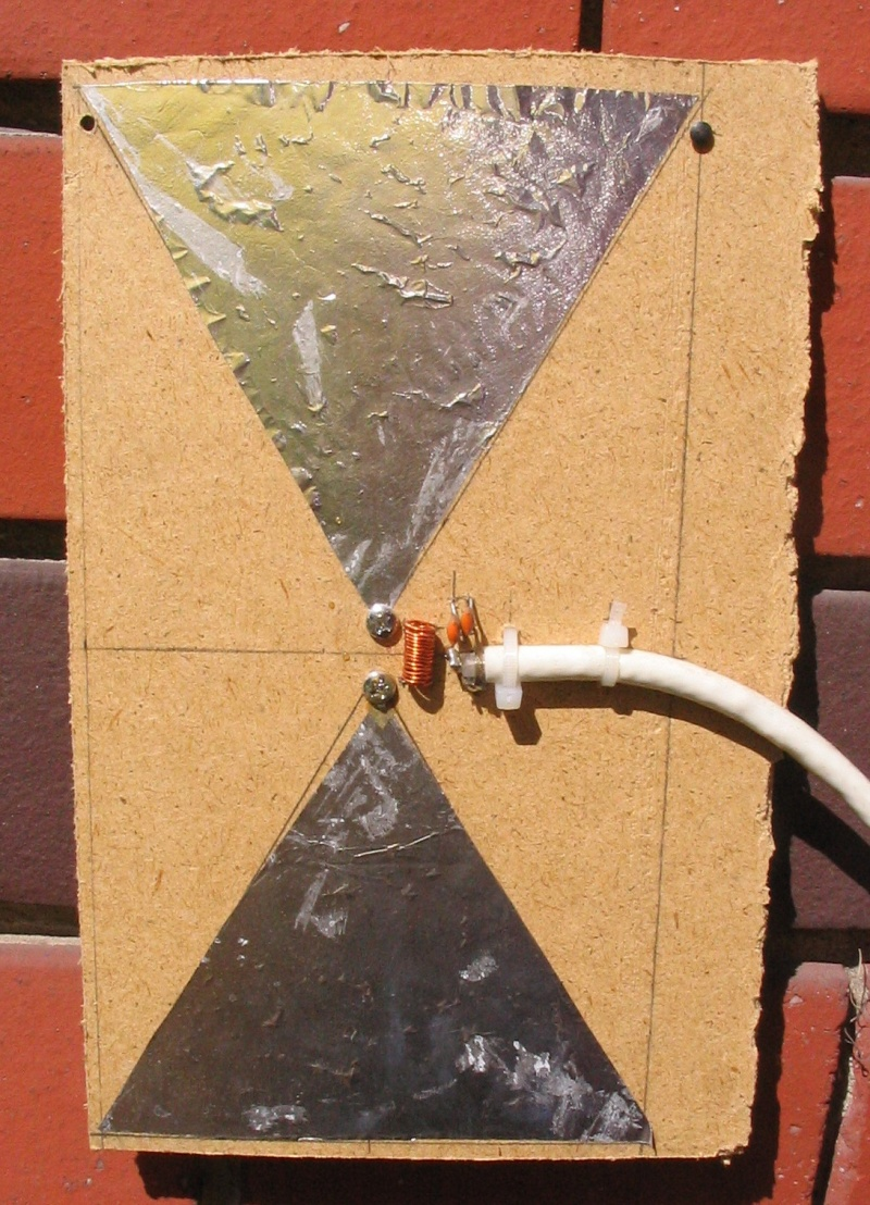 DIY Ultra-Low-Cost DVB-T Butterflyantenna. Carrier material: Soft wood fiber. A used plastic charge card or bank card will do the job, too. Batwing: glued-on aluminium foil. Alternatively tin plate from a used can, netting wire. However something which has a electric conductivity